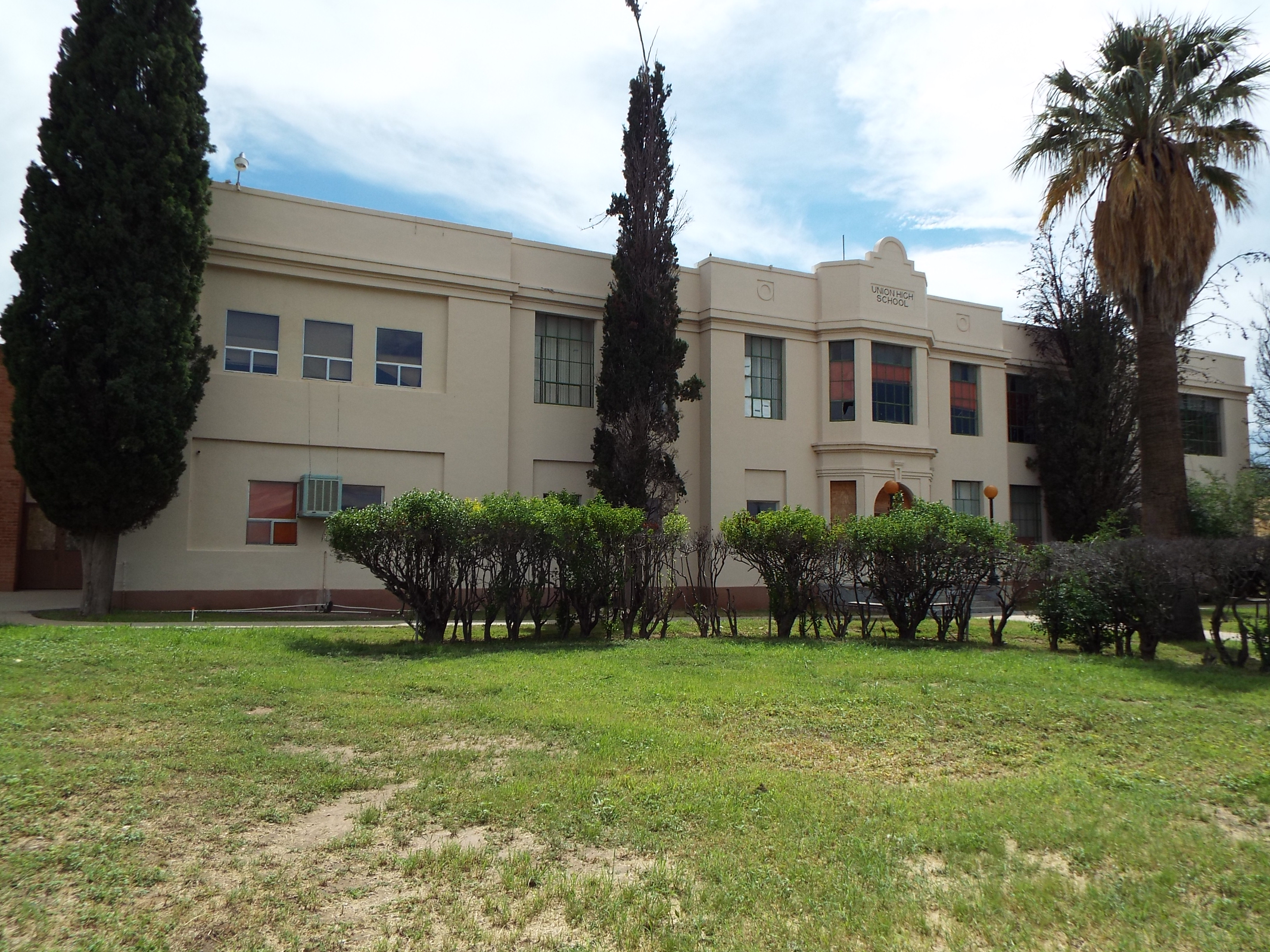 The original Tombstone High School building built in 1922 and located at 605 East Freemont Road in Tombstone, Arizona..